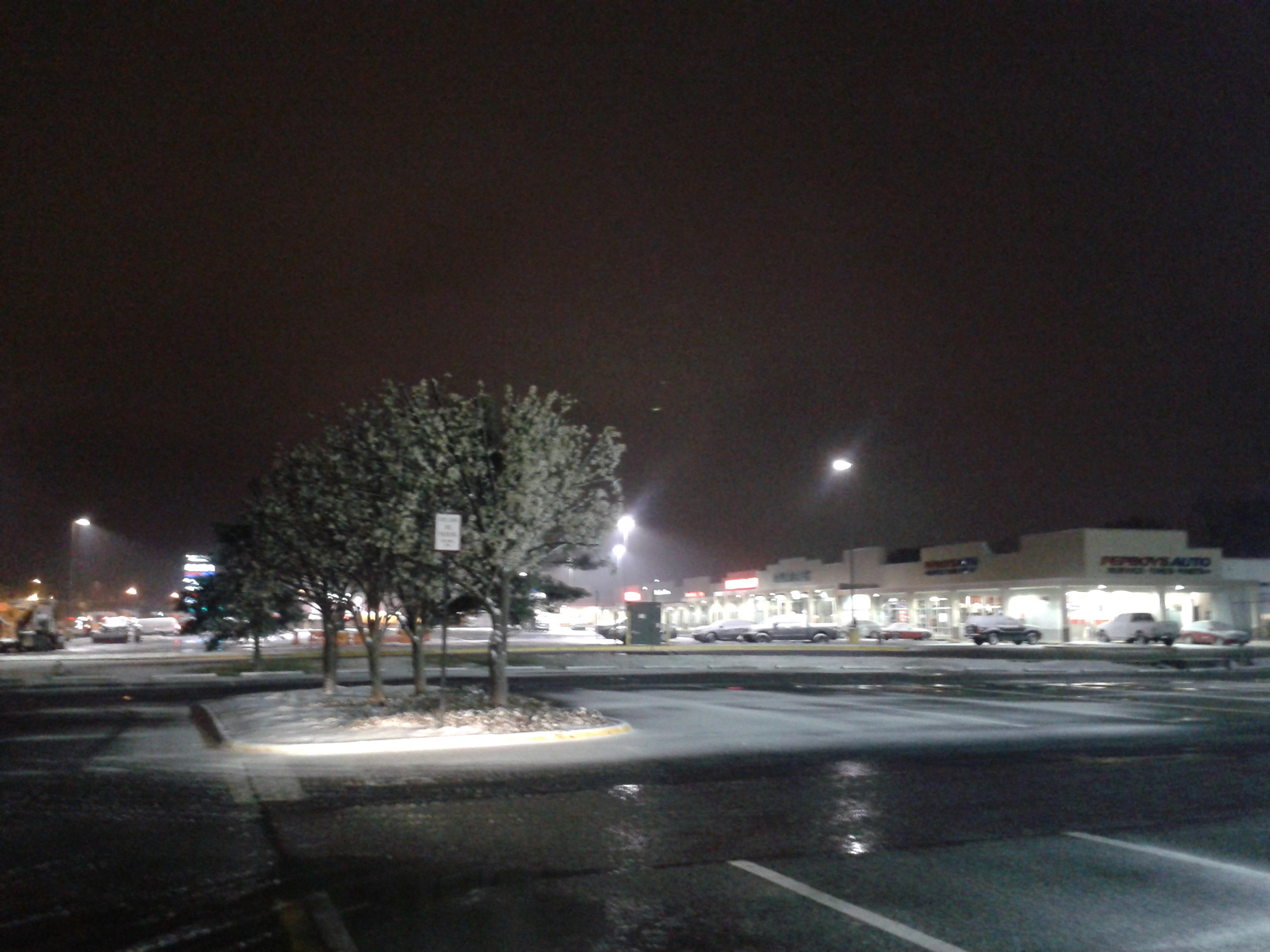 A light snow in March, Hybla Valley, VA